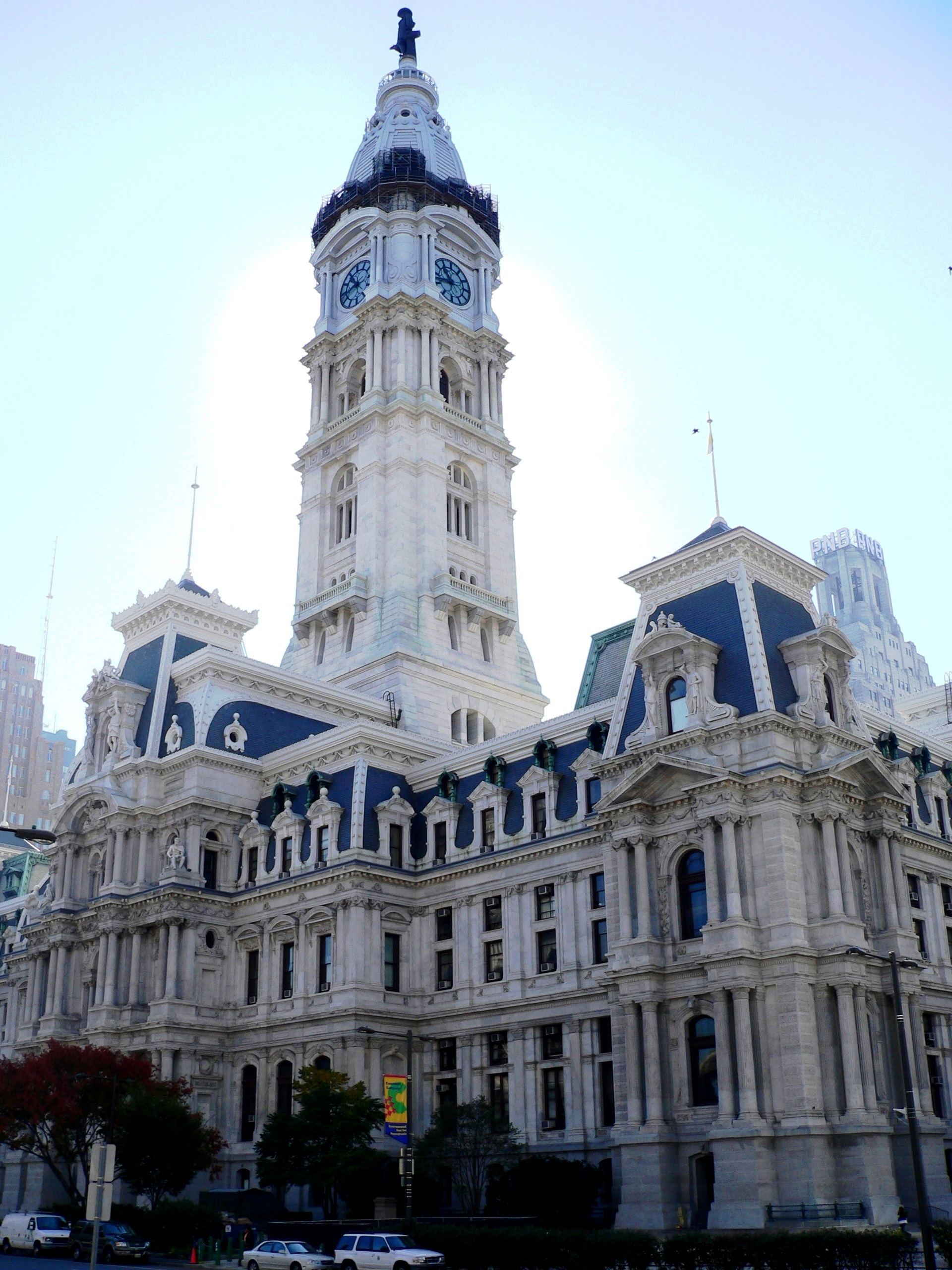 Philadelphia City Hall, Philadelphia, Pennsylvania. Picture taken in 2006.